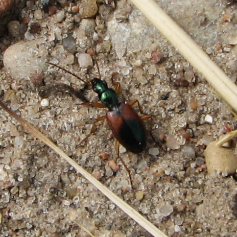 Anchomenus dorsalis